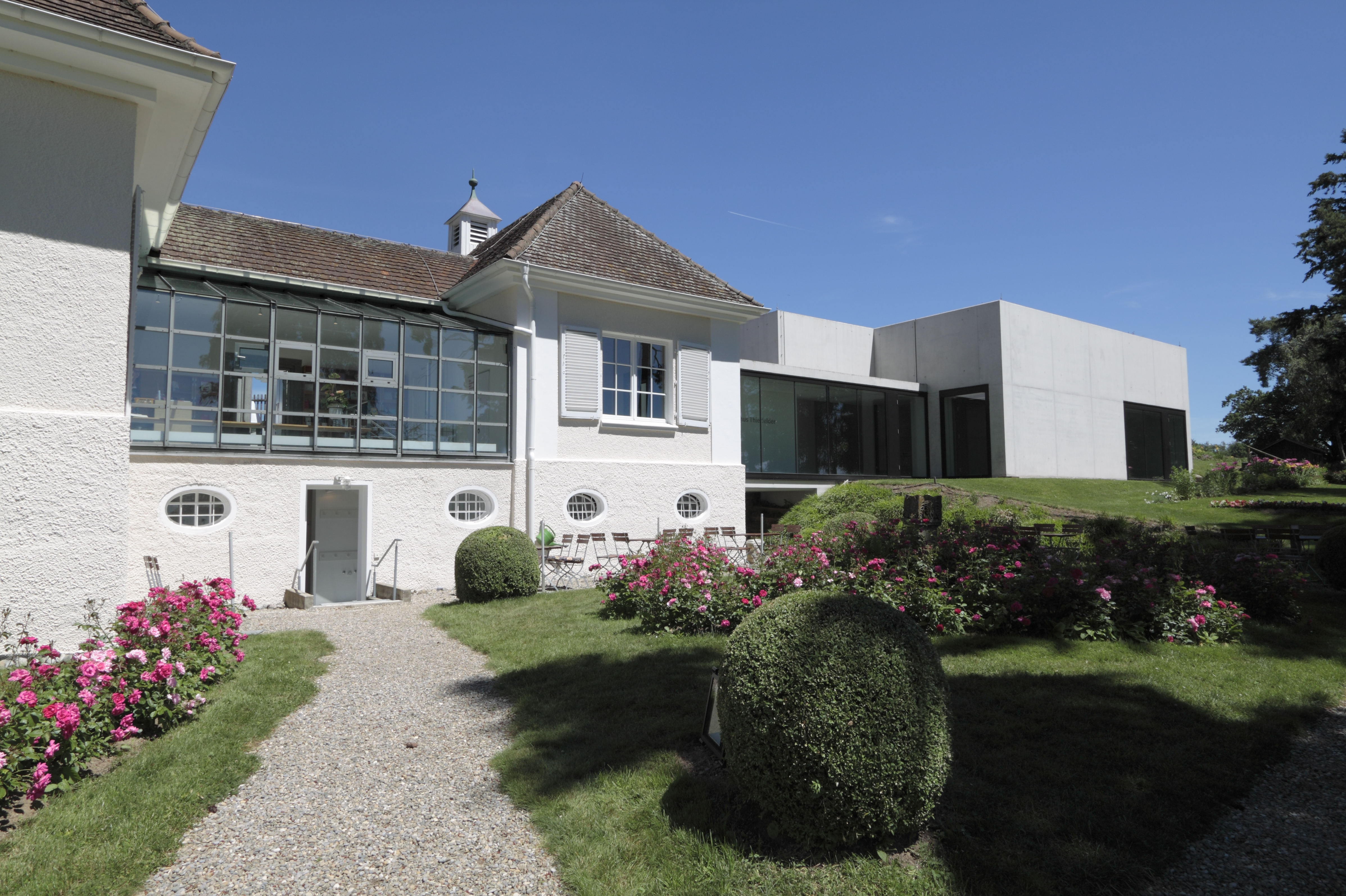 Museum Villa Rot, annex with modern exhibition space